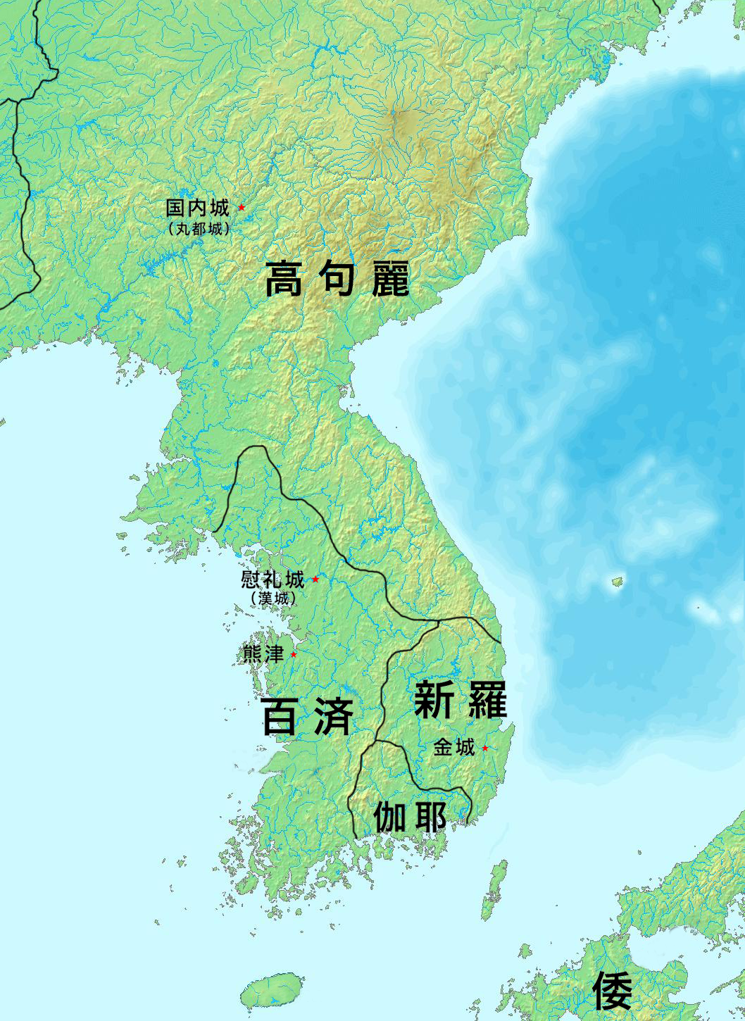 375年的朝鲜三国